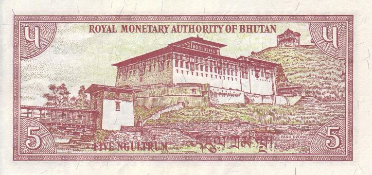 Banknote in Bhutan after a travel in this country.